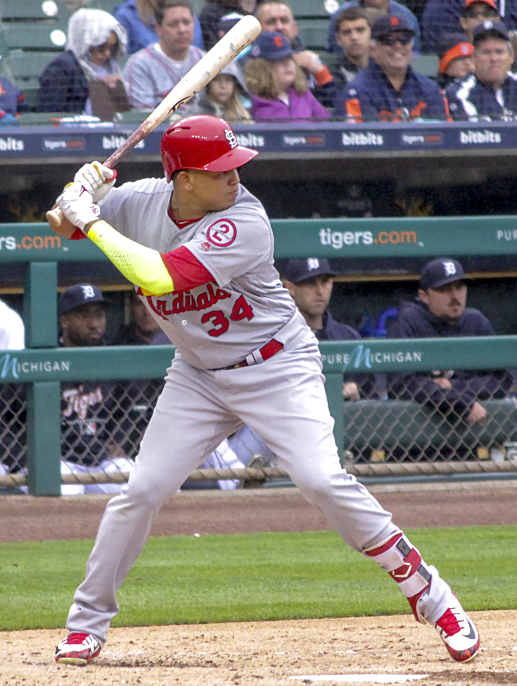 Cardinals player Yairo Munoz batting in 2018.